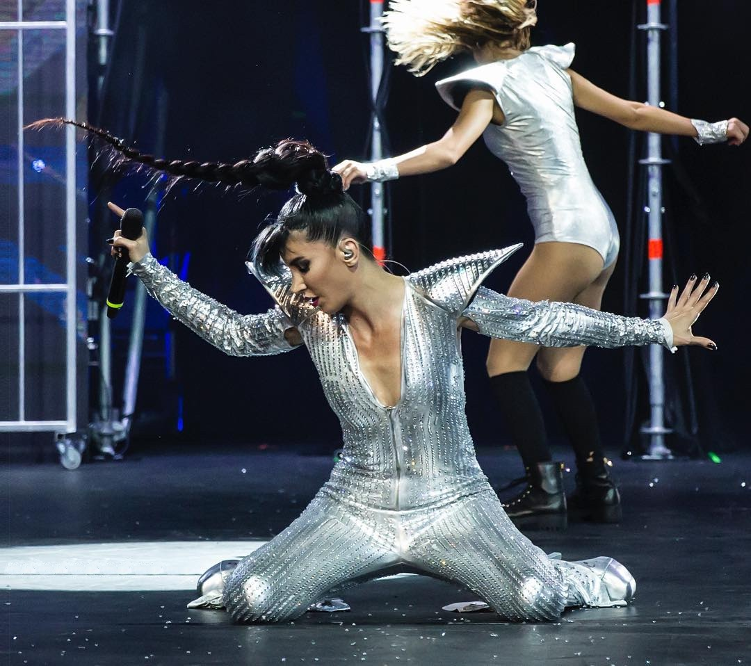 Hande Yener performing at Harbiye on August 9, 2016.